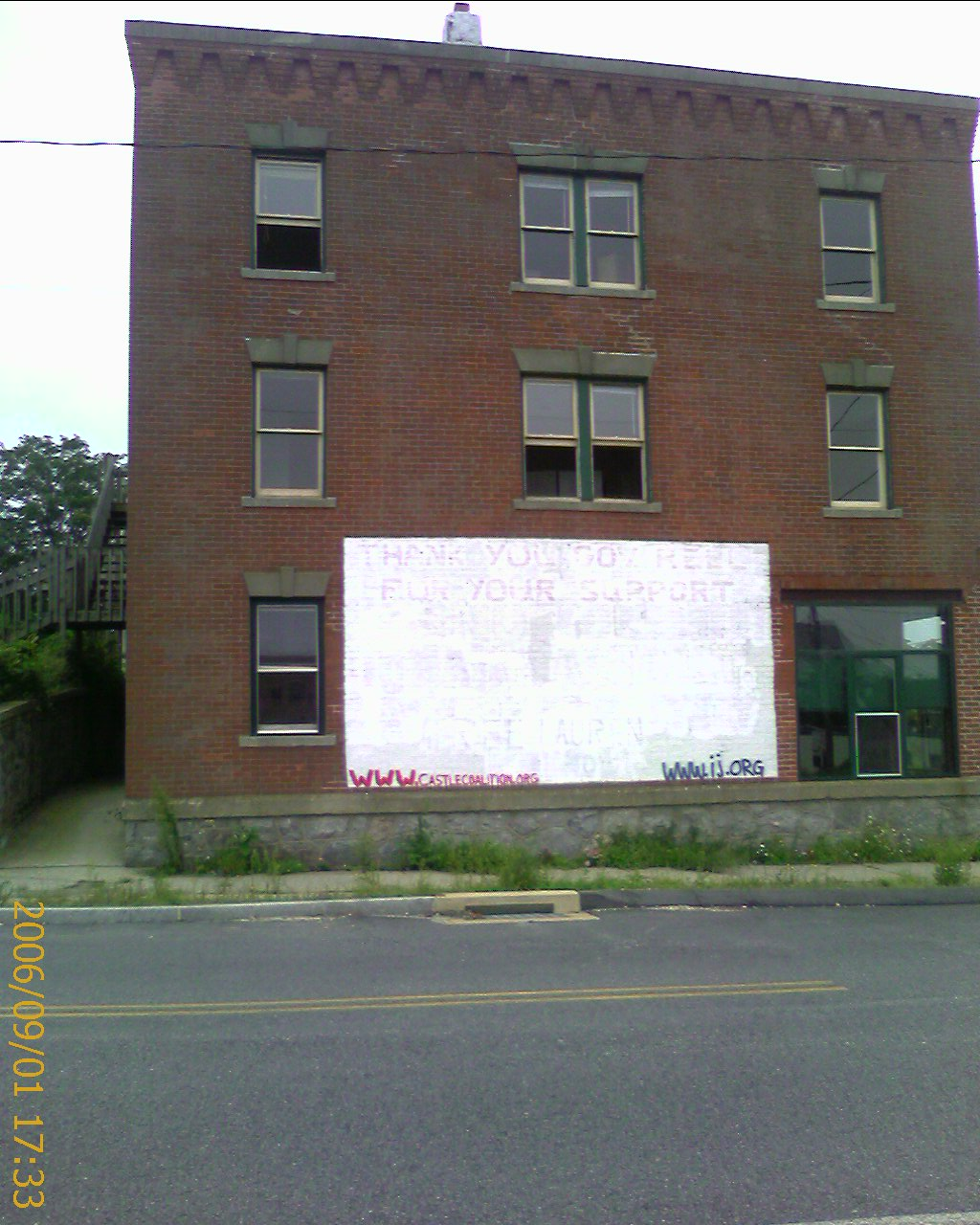 Former Fort Trumbull Neighborhood, New London, CT